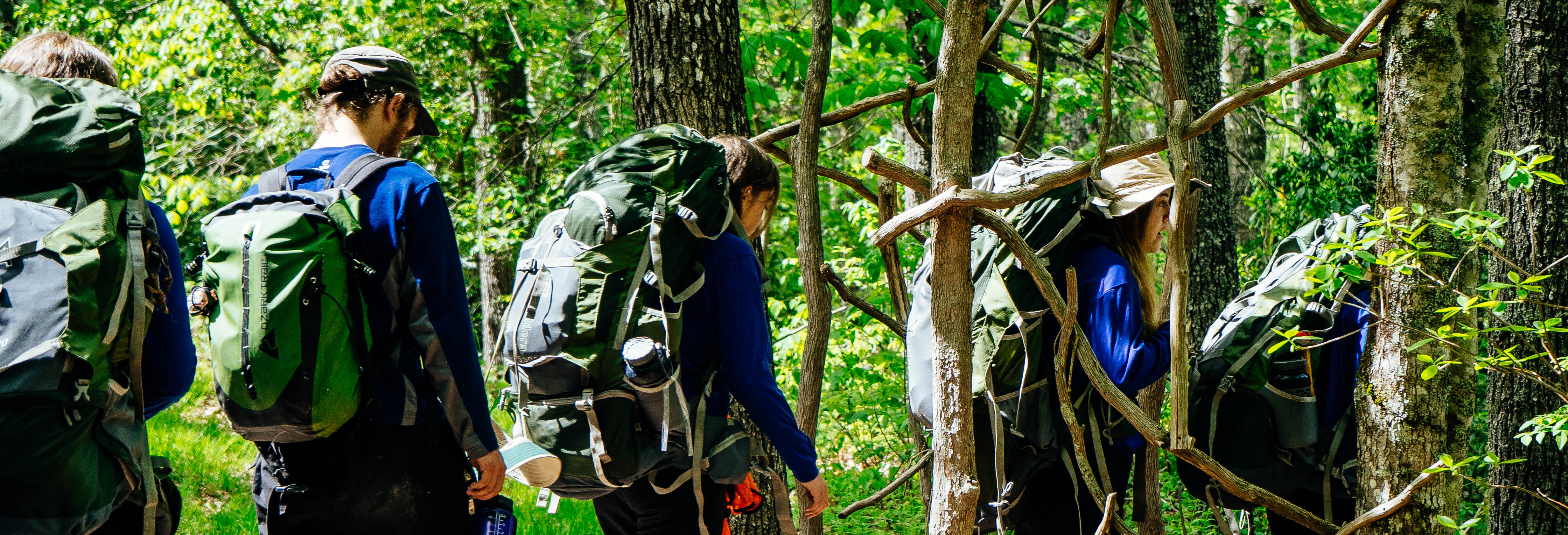 Wilderness therapy programs often use backpacking trips as a way to help people grow.